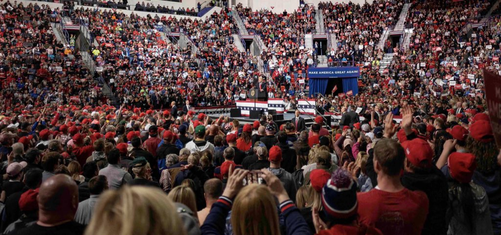 Donald Trump holding a rally in Green Bay, Wisconsin, 27 April 2019